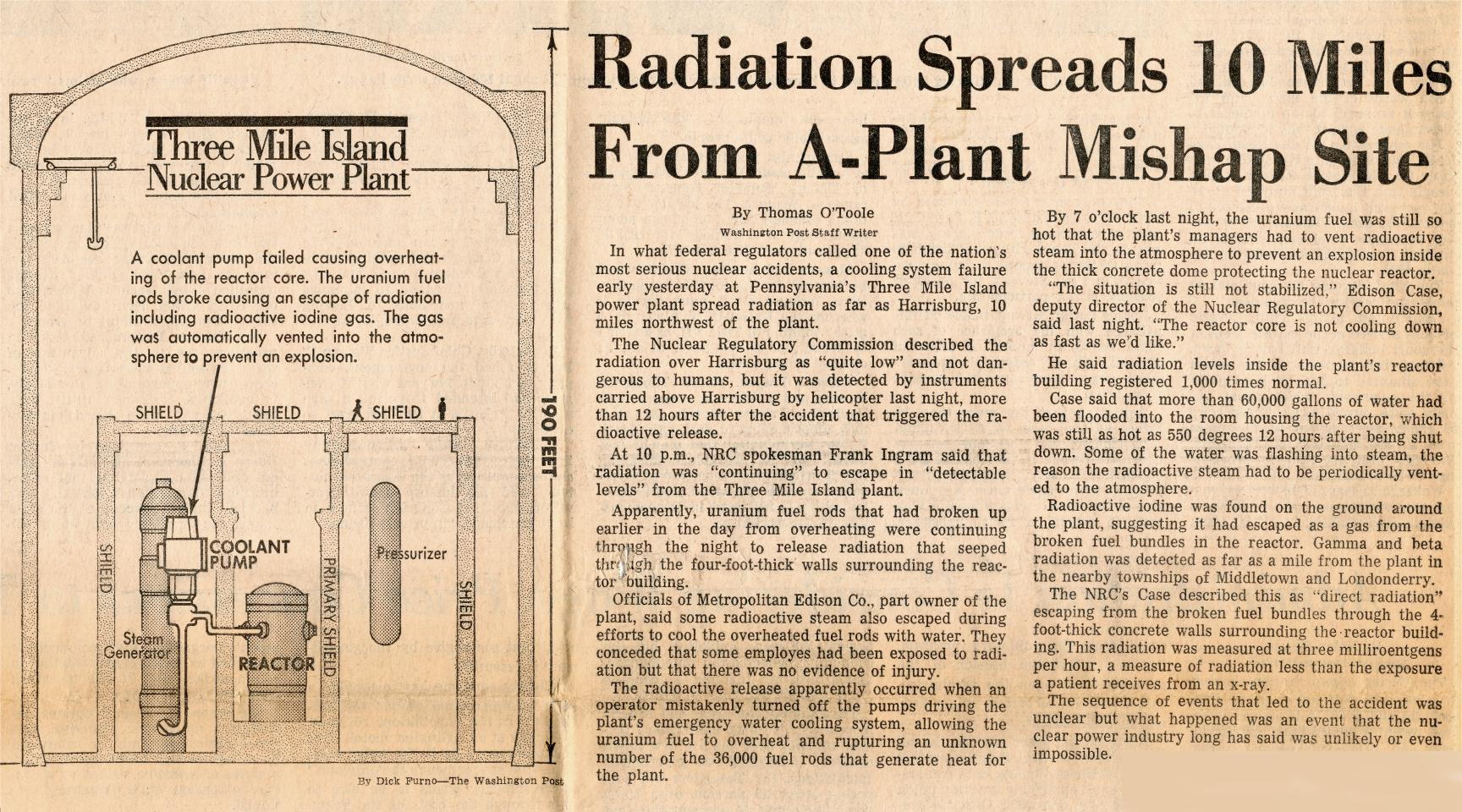 In March 1979, an accident at the Three Mile Island nuclear facility near Harrisburg, Pennsylvania, led FDA to arrange emergency provisions of potassium iodide for one million residents to block thyroid uptake in the event of accidental release of radioactive iodine. The medicine never had to be used. For more information about FDA history visit